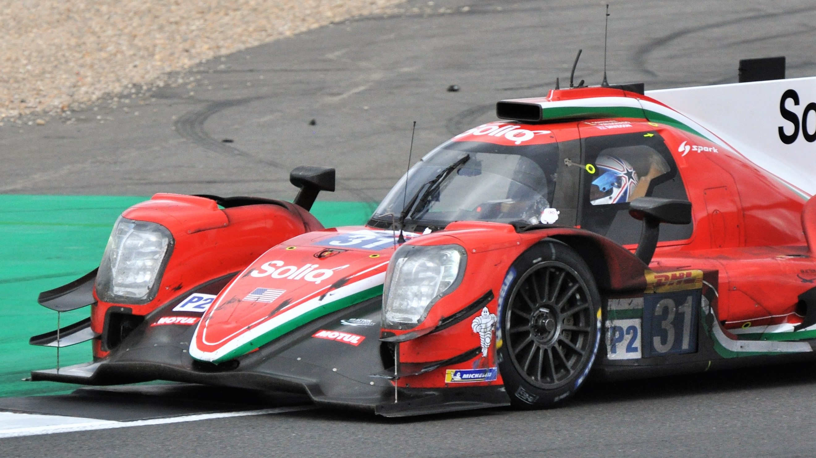 British driver Anthony Davidson, in the number 31 DragonSpeed-entered Oreca 07, stares into Club corner during the 2018 6 Hours of Silverstone race. Davidson and his co-drivers, Mexican Roberto Gonzalez and Venezuelan Pastor Maldonado, finished fourth in the LMP2 class.